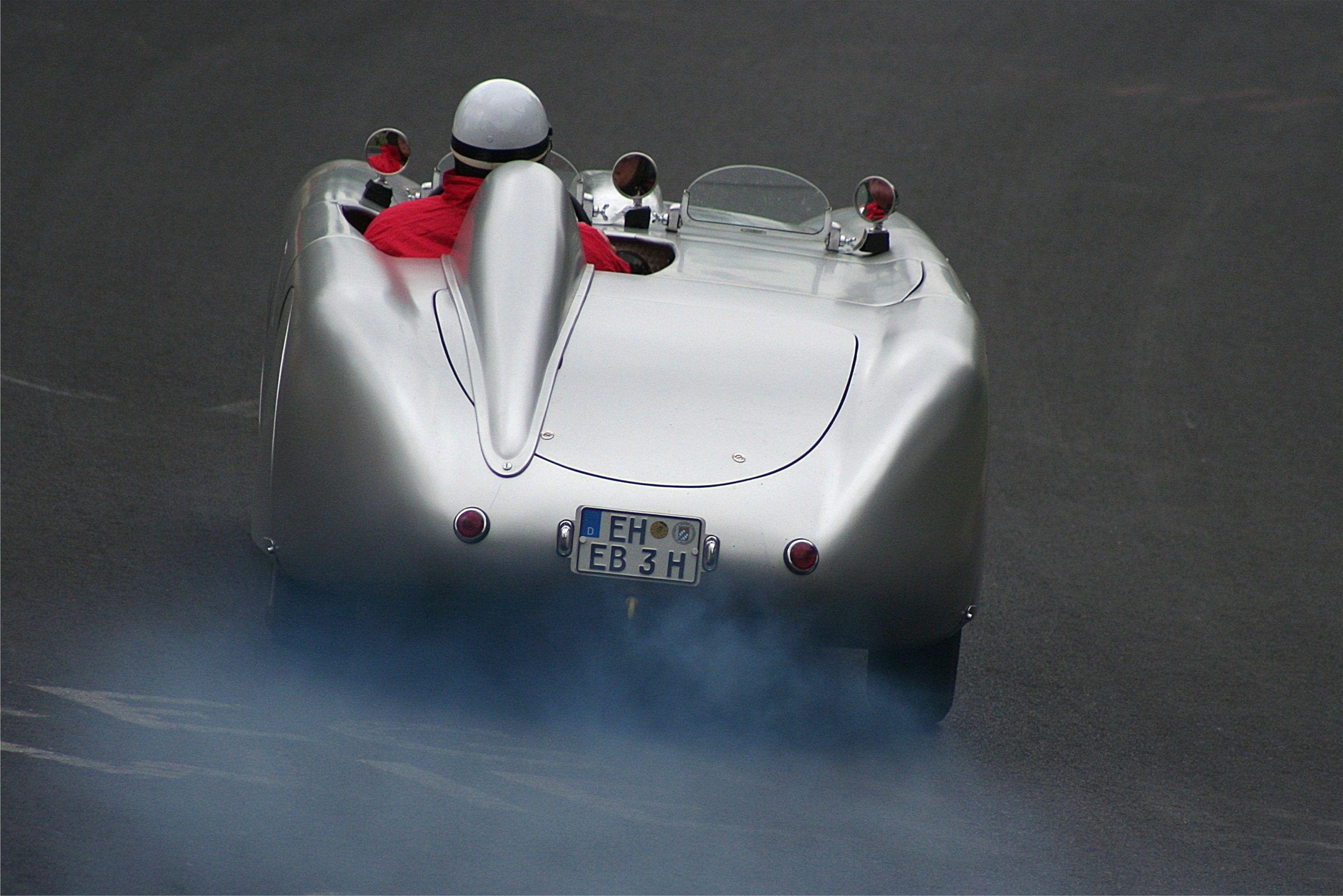 Veritas RS at the Nürburgring (exit Brünnchen), during the 2007 Oldtimer Festival of the DAMC 05.